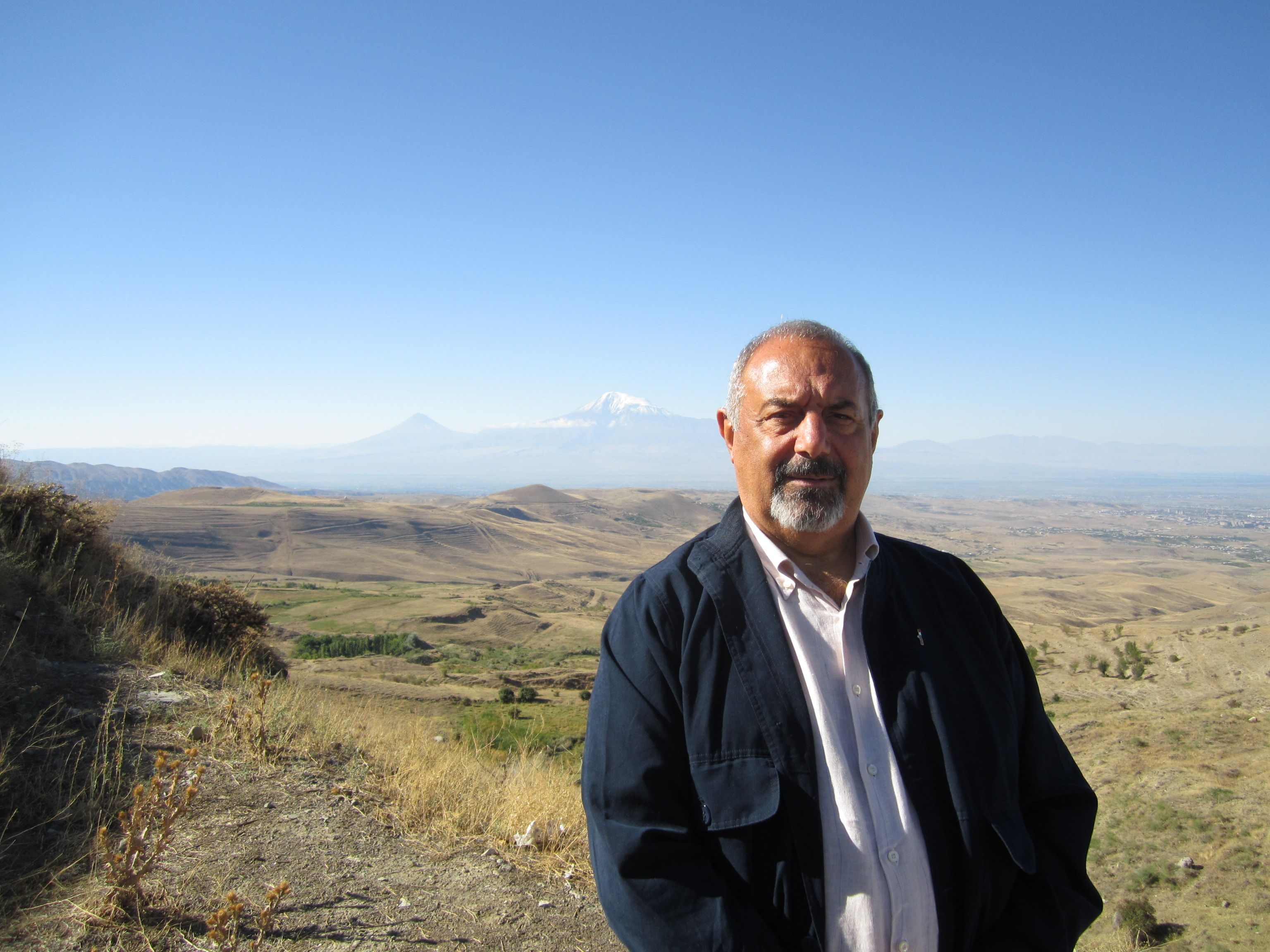 Baykar Sivaslyian